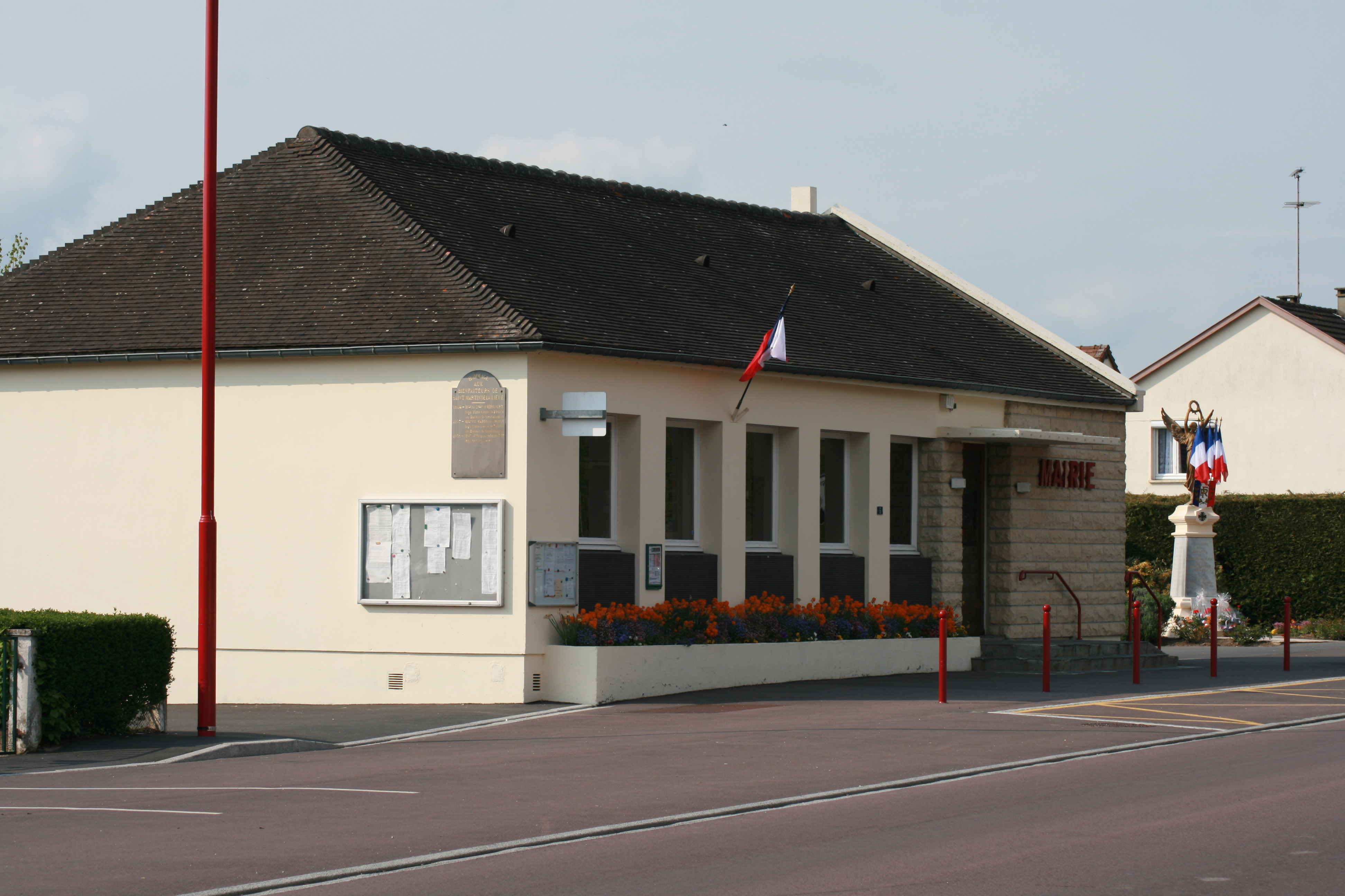 Town hall of Saint-Martin-de-la-Lieue (14100).